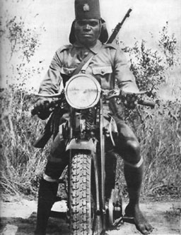 Force Publique dispatch rider circa 1942